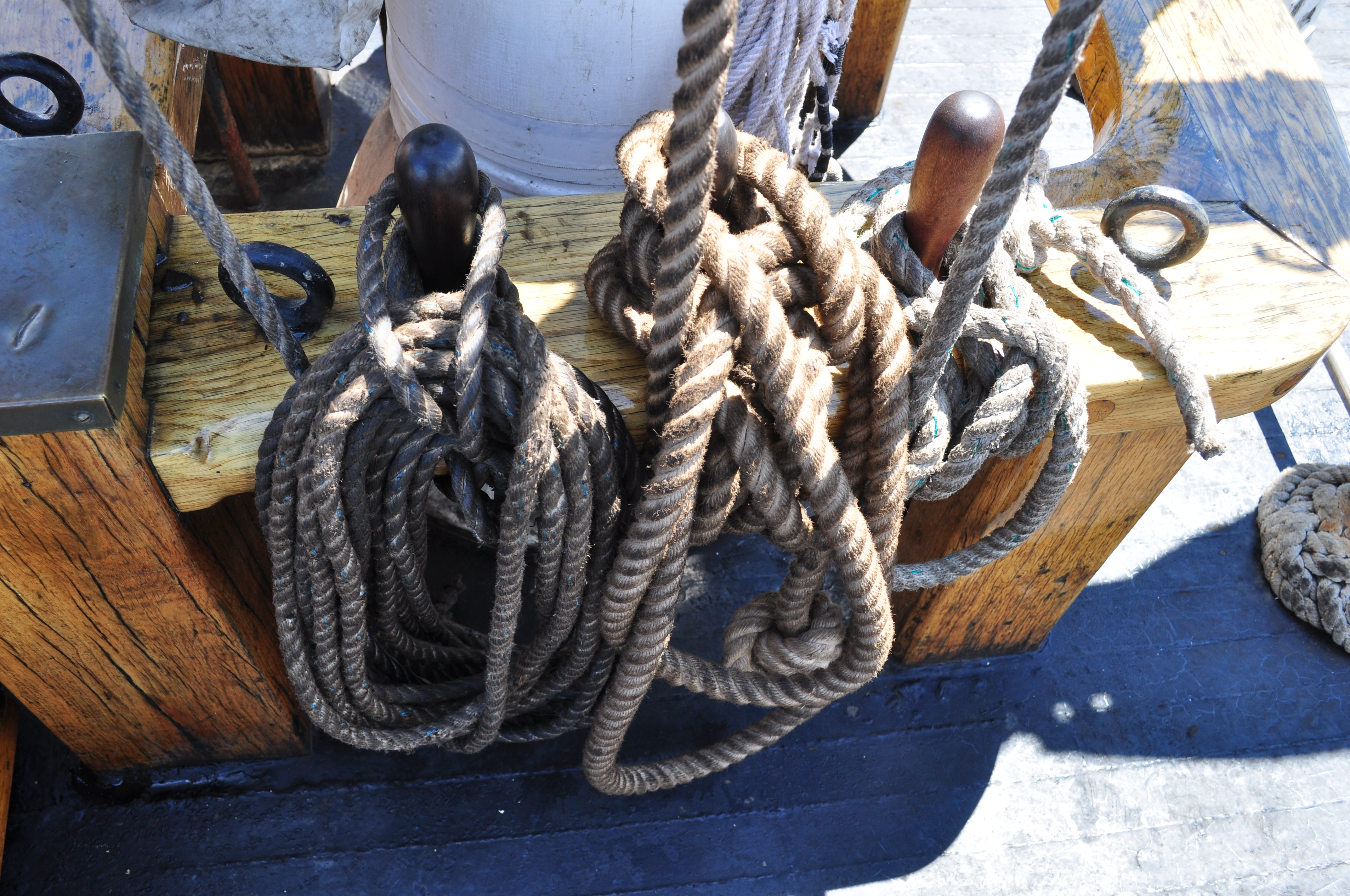 Rigging: tie-offs at the base of one of the two masts of the Adventuress. Photographed while the Adventuress was at Shilshole Bay Marina, Ballard, Seattle, Washington, U.S. for Marina Day 2016. Adventuress is a National Historic Landmark.